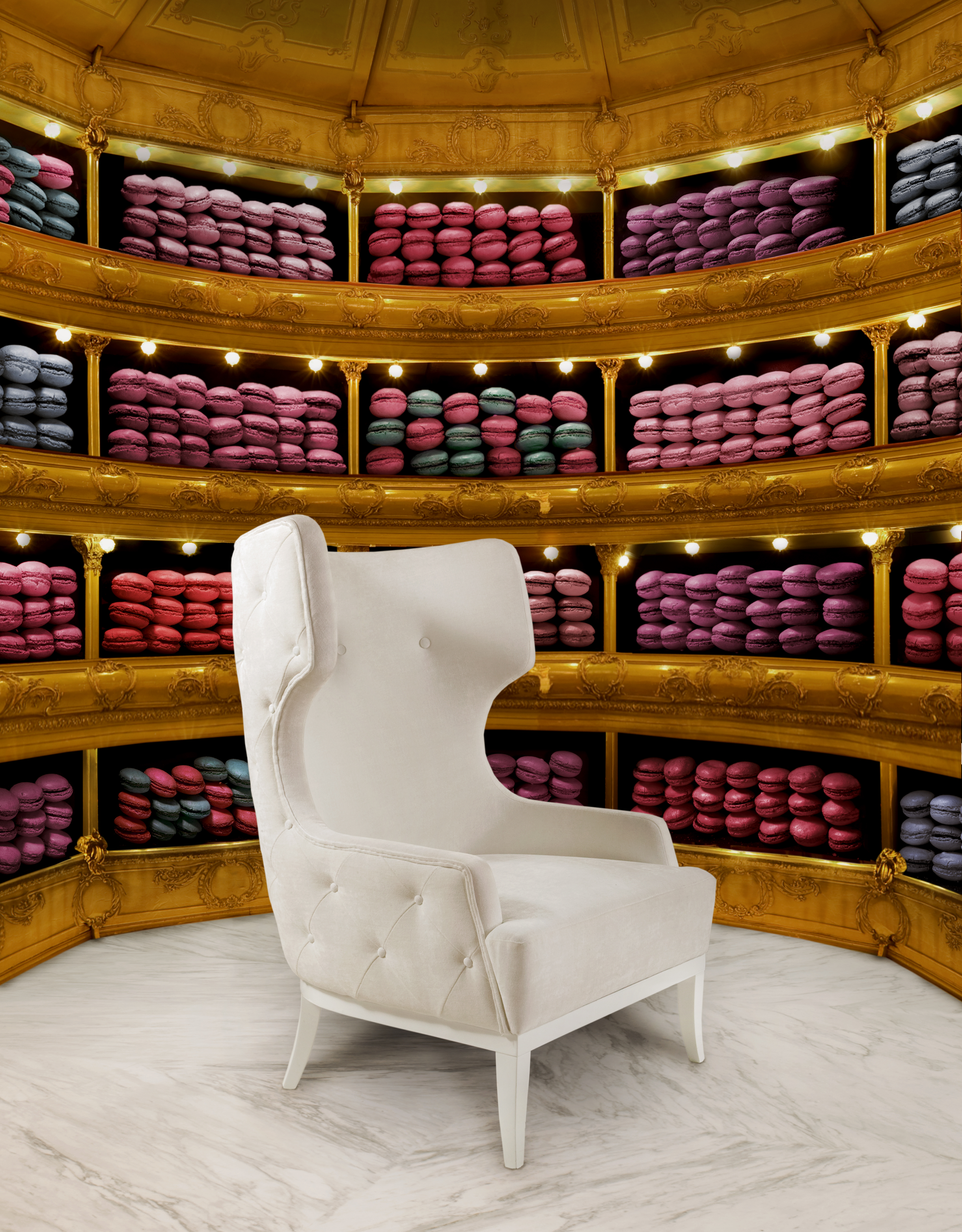 Soft & Creamy armchair, collection 'Dress me' by Munna, Portugal.